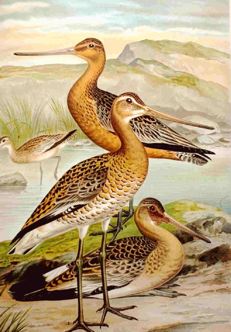 Limosa limosa (front), Limosa lapponica (behind)